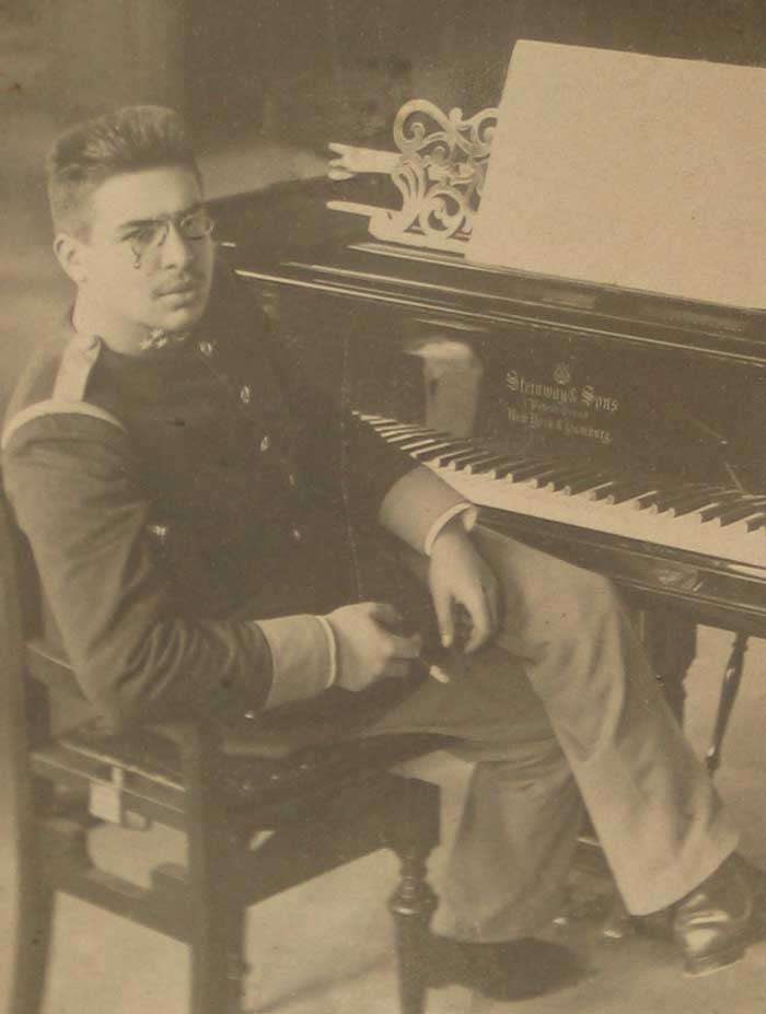 Photo of German and Israeli musician Leo Kestenberg at piano